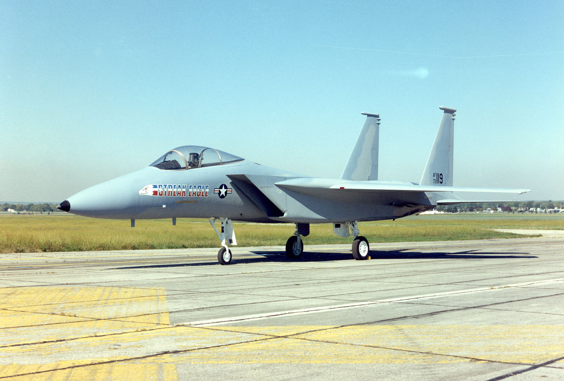 DAYTON, Ohio -- McDonnell Douglas F-15 Streak Eagle at the National Museum of the United States Air Force.